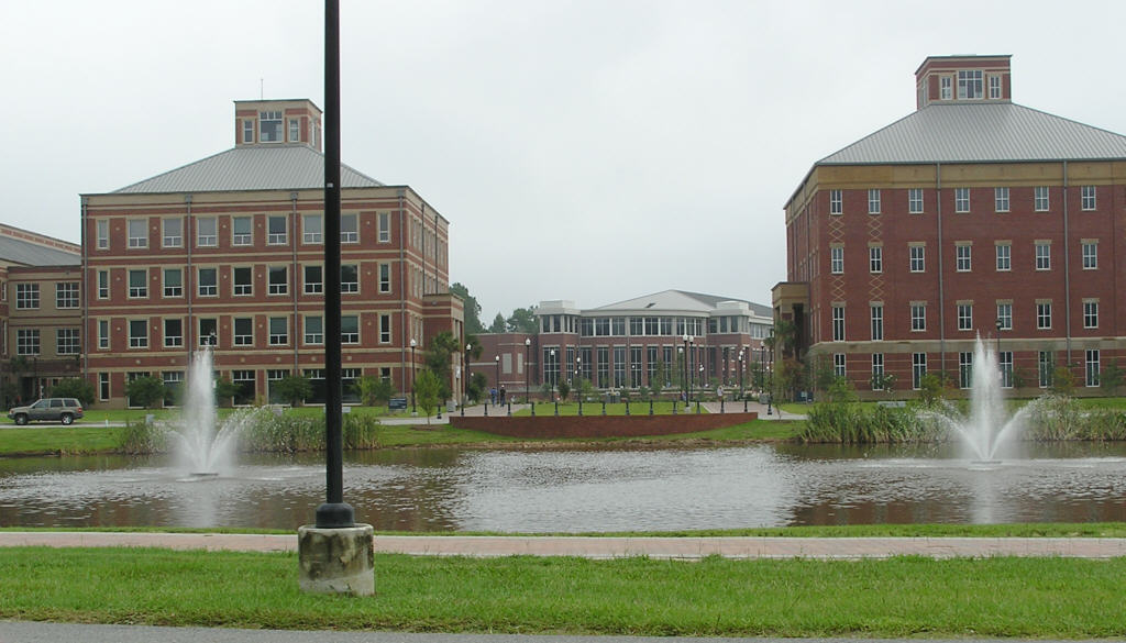 View of Georgia Southern campus from Forest Dr looking between Education and Nursing buildings. Photo taken Richard Chambers, Aug-2004. Between the College of Education building on the left and the College of Nursing building on the right, you can see the College of Information Technology building. Other images in this series: A view of the small lake in the center of the Georgia Southern campus A view down the pedestrium back towards the Education and Nursing buildings A view across the pedestrium towards the lake.